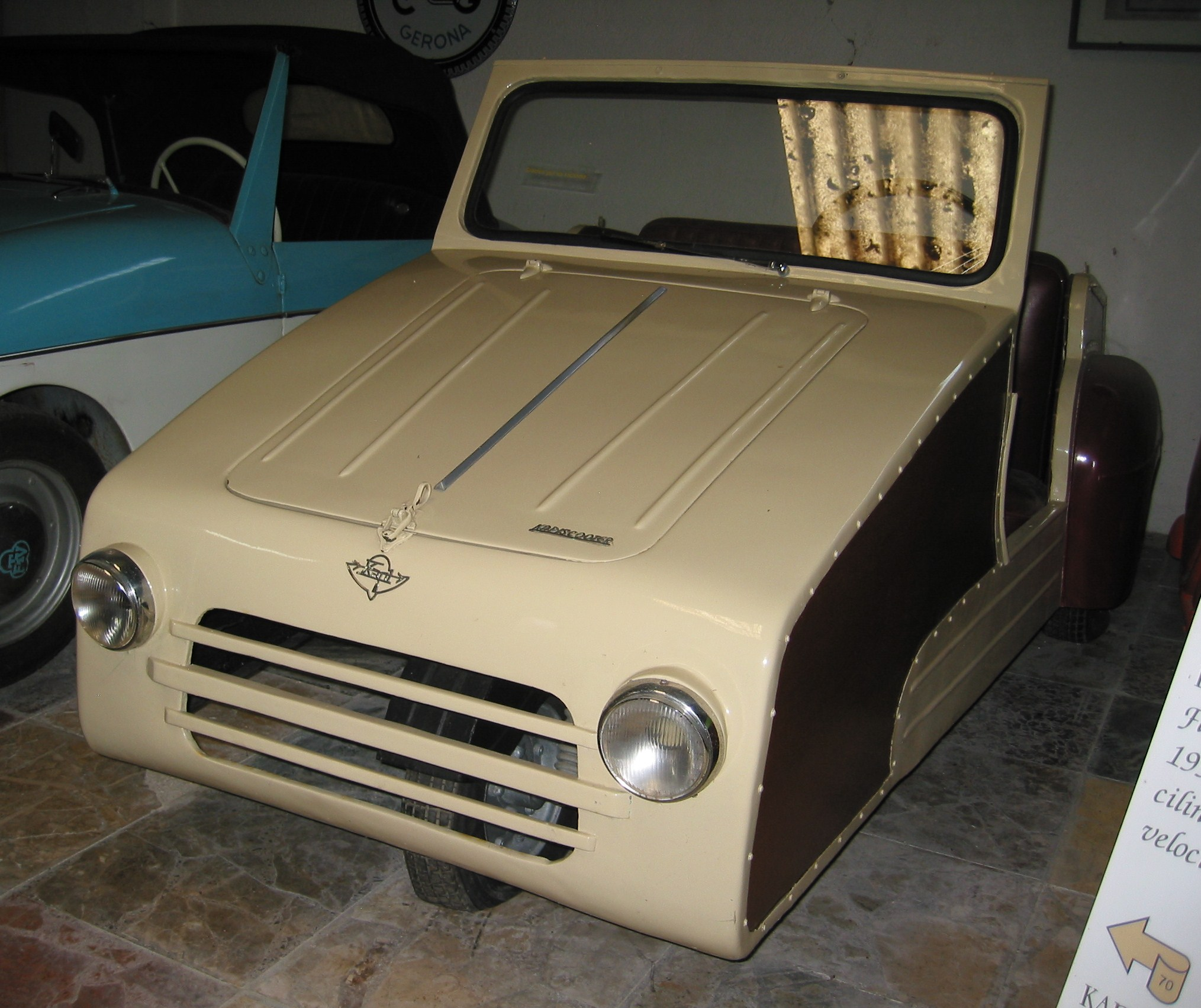 Kapi Kapiscooter 1954 (Country of origin: Spain)